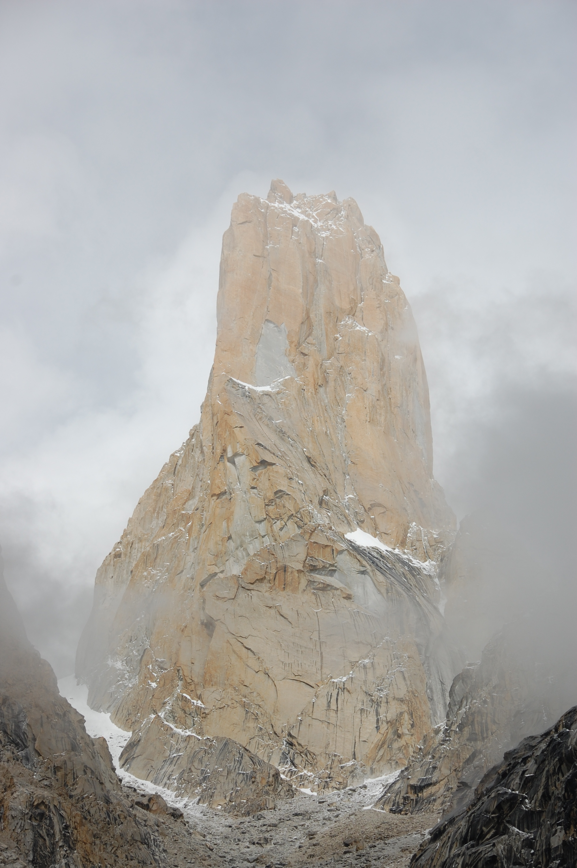 Nameless Tower, Trango Group in the Karakorams, north of the Baltoro glacier.